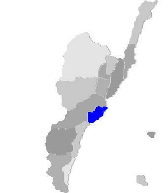 Location of Taitung in Taitung in Taiwan